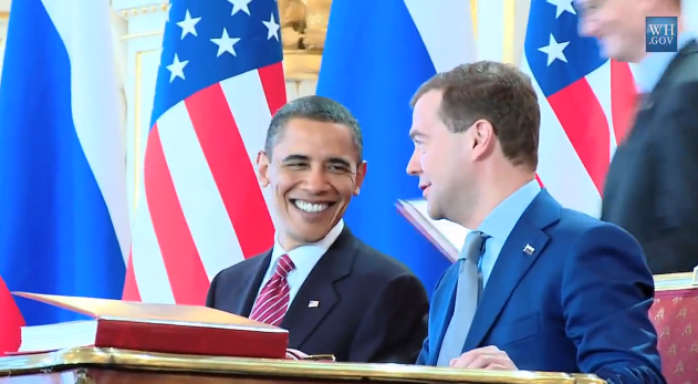 President Obama and President Dmitry Medvedev preparing to sign the New START treaty from West Wing Week episode 02 24 Tiny Marzipan Beaks.